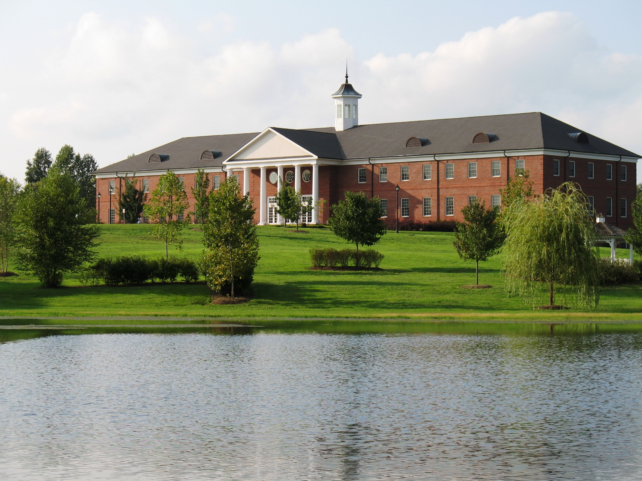 Patrick Henry College - Purcellville, Virginia Image taken by Patrick McKay (DebateLord) on September 14, 2006